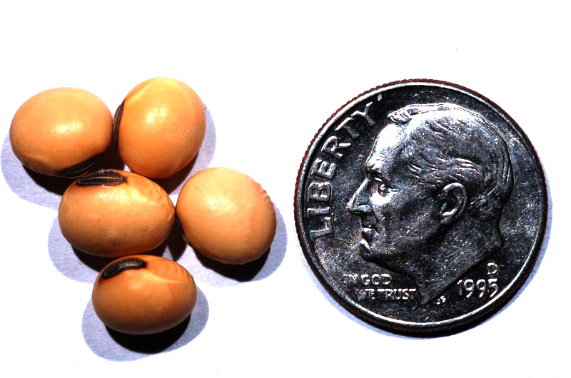 Seeds of Glycine max (soybean) next to a U.S. dime for scale.